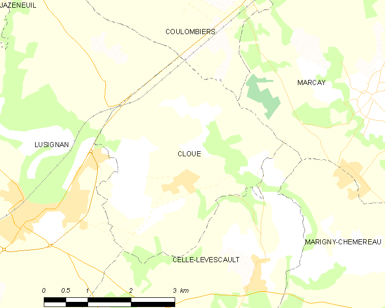 Map of French municipality Cloué